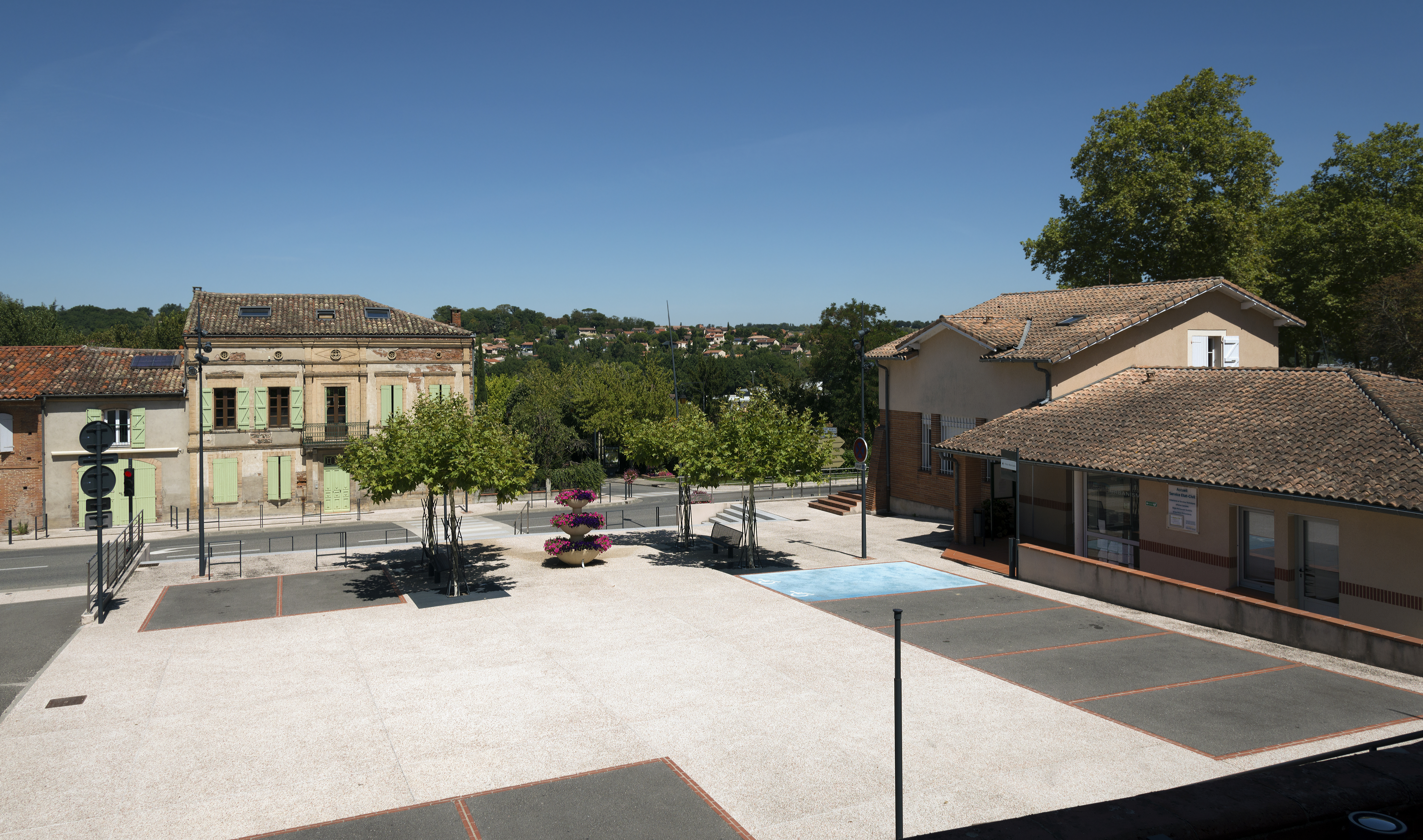 Montrabé, France. François Mitterrand's square.